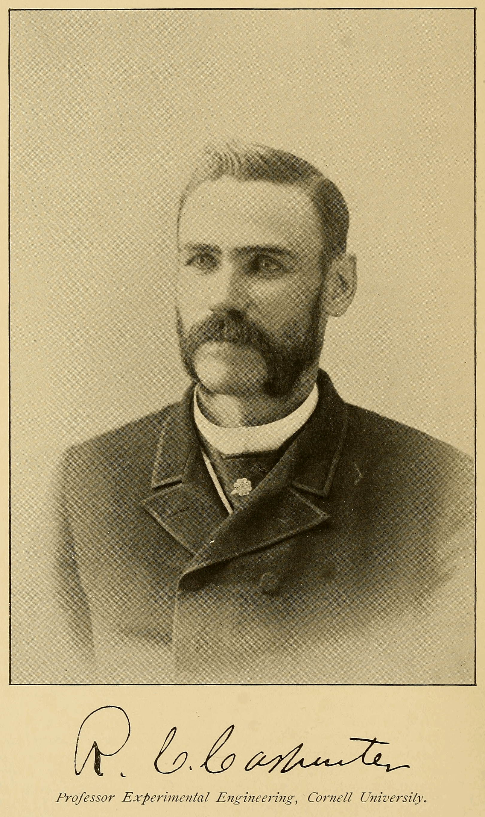 Professor Rolla C. Carpenter was featured in Cassier's Magazine, January 1892, on page 231, accompanied by this photo on page 182.